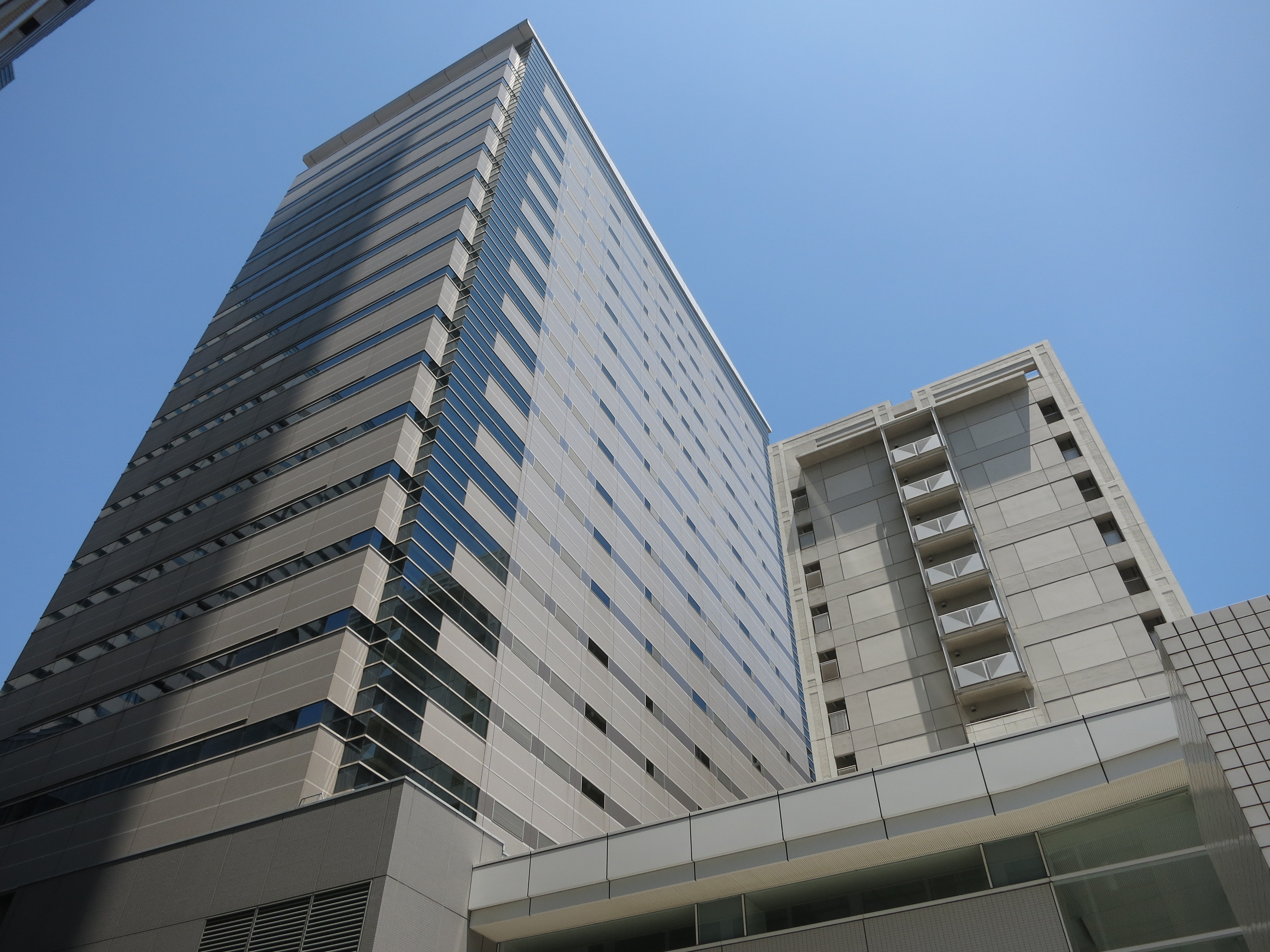 Jikei University Harumi Toriton Clinic